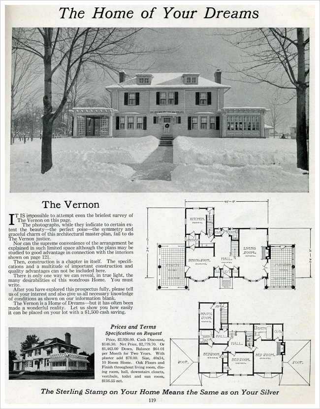 House plan for kit home from catalog published by Sterling Homes, Bay City, Michigan, in 1916.